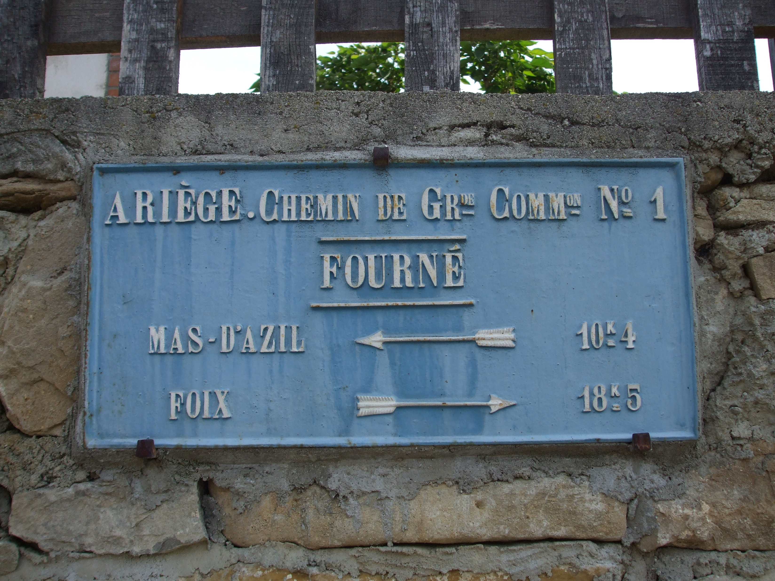 Road sign in Aigues-Juntes